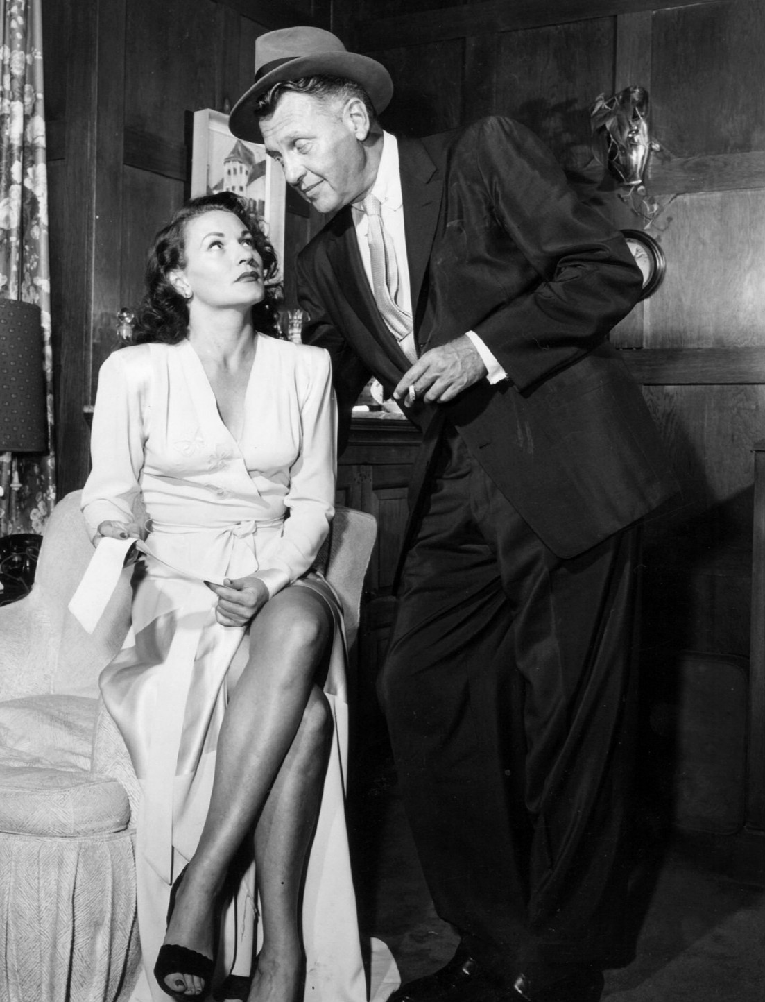 Photo of Ralph Bellamy as Mike Barnett from the television program Man Against Crime. In this scene, Barnett is questioning a mobster's wife played by Gloria McGhee.